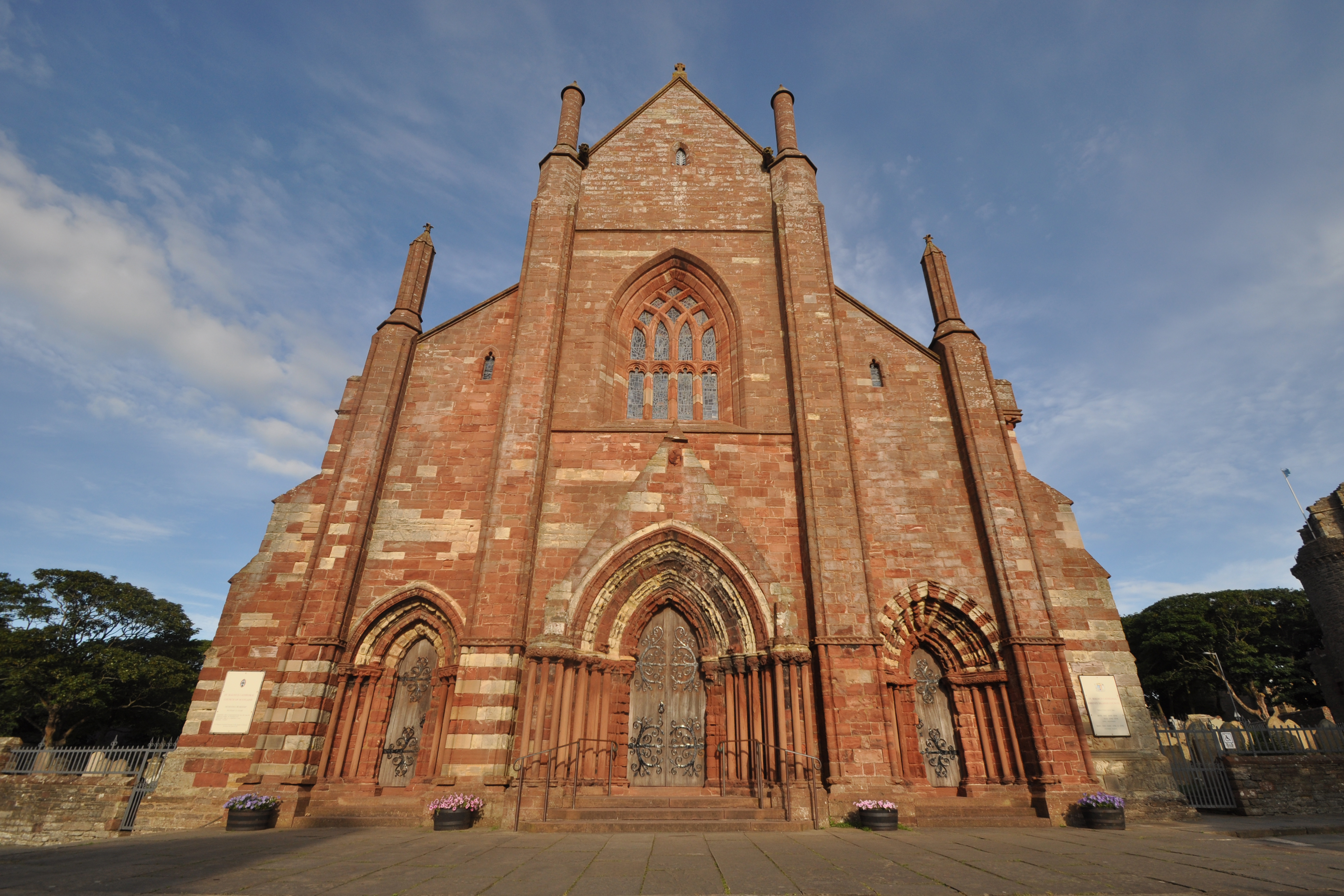 KIRKWALL, BROAD STREET, ST MAGNUS CATHEDRAL Wikidata has entry Q17572324 with data related to this building.